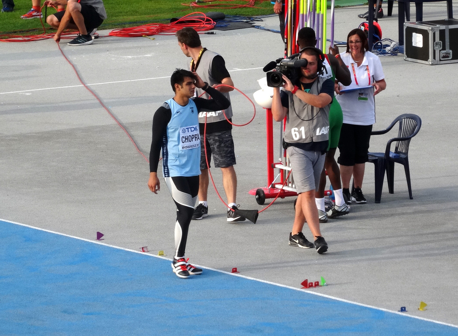 2016 IAAF World U20 Championships in Bydgoszcz, javelin throw men final